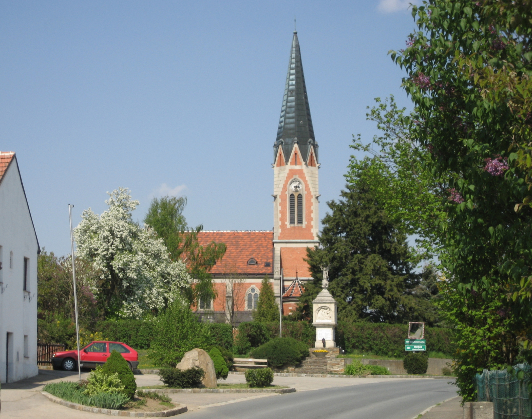 Church in Stockern, Lower Austria